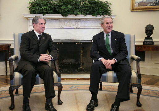 sheikh amine gemayel with president bush